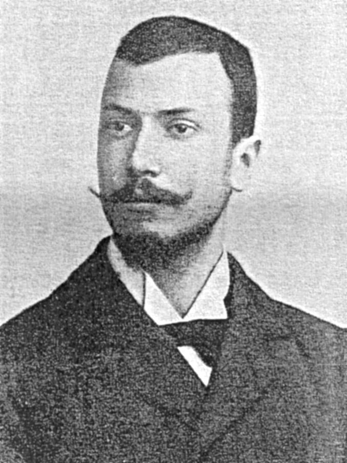 Ernesto Lugaro (1870-1940), Italian neurologist and psychiatrist of Lugaro cells fame